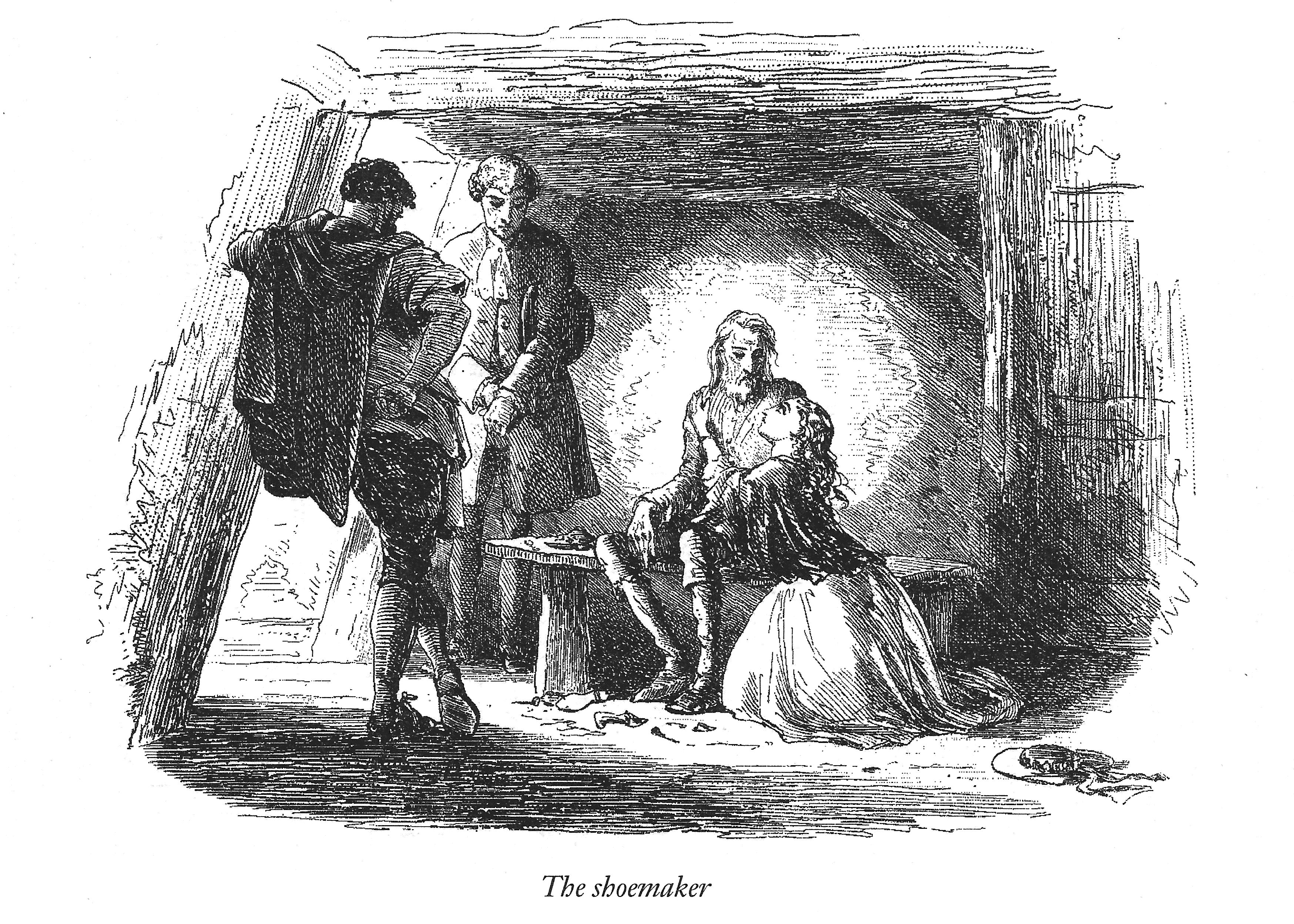 A Tale Od Two Cities, Dr Manette in prison, The Shoemaker, by Phiz